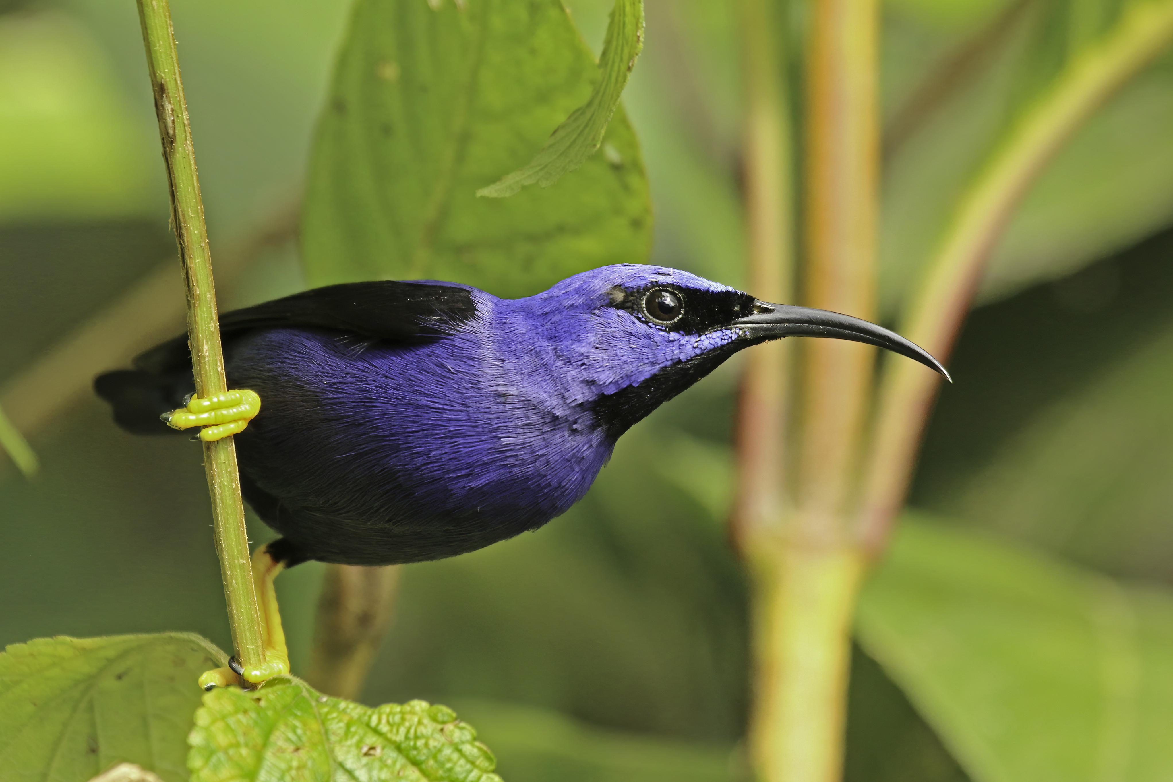 Purple honey creeper (Cyanerpes caeruleus longirostris) male, Trinidad